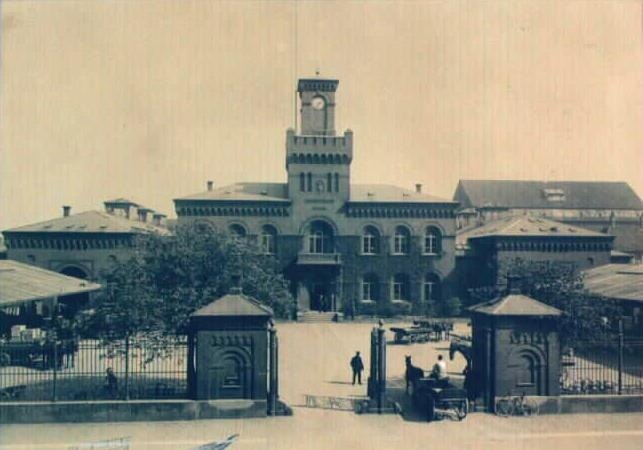 The Customs House, Copenhagen